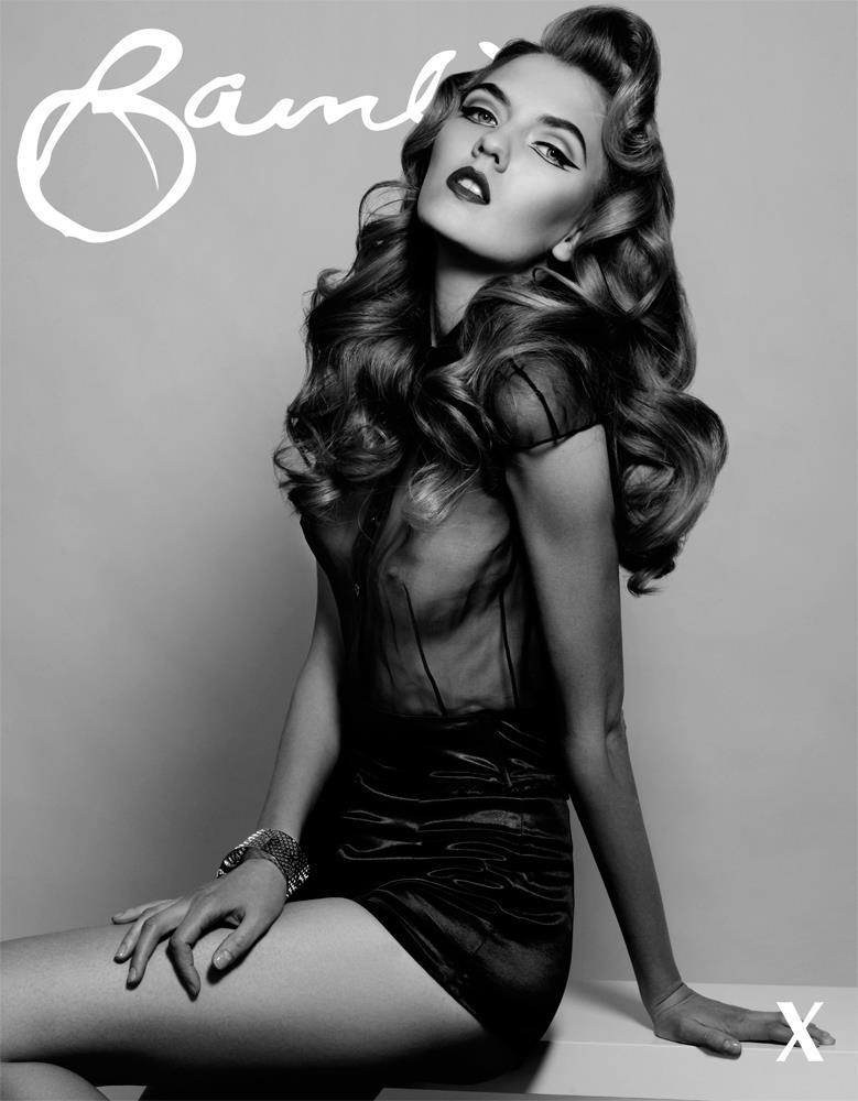 Cover of Bambi Magazine, model Toma Barkova[1]